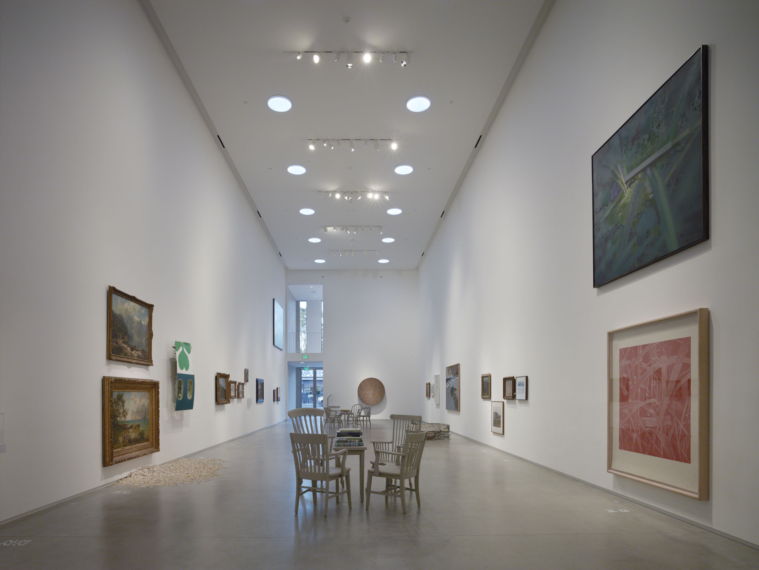 Interior of the ESMoA museum